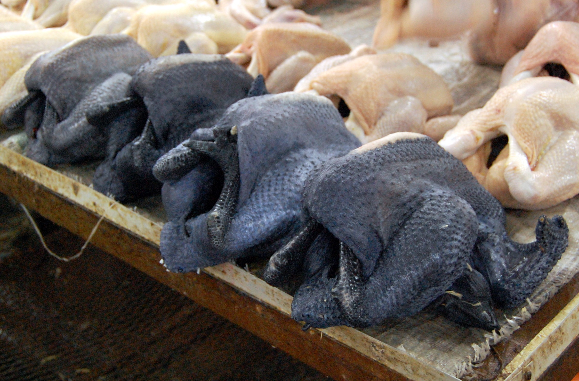 I stumbled into an early morning Chinese market and its interesting merchandise of black chicken during one of my Kuala Lumpur walks. At first, I thought these are either marinated or fermented in black sauce. But the chickens are freshly dressed and have real black skins. I was told these are cooked into soup for the consumption of those who have just given birth. In the Ilocano part of the Philippines, this is similar to the post-birth practice of "agpatanggad". Nikon D40 (DTP Course on Trade and Human Rights, March 2008).